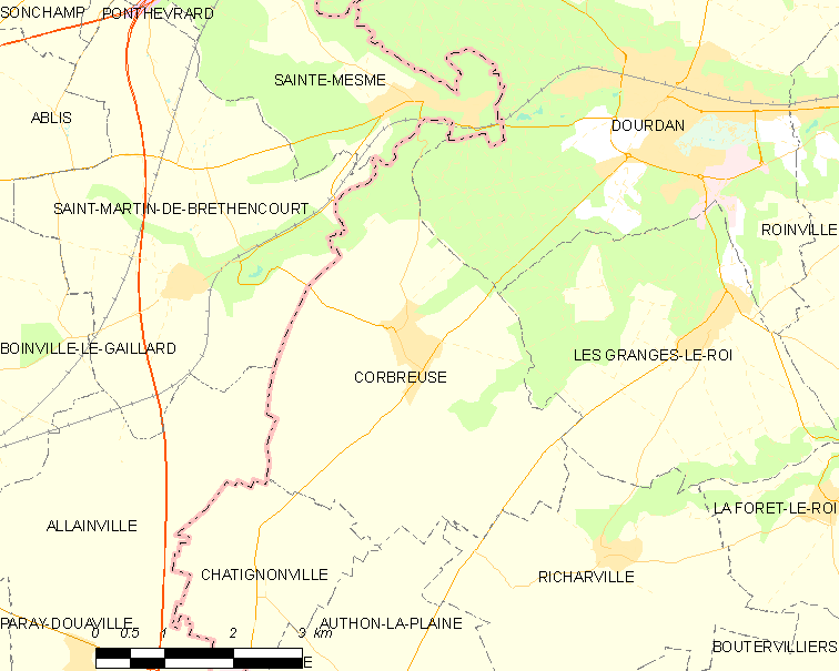 Map of French municipality Corbreuse